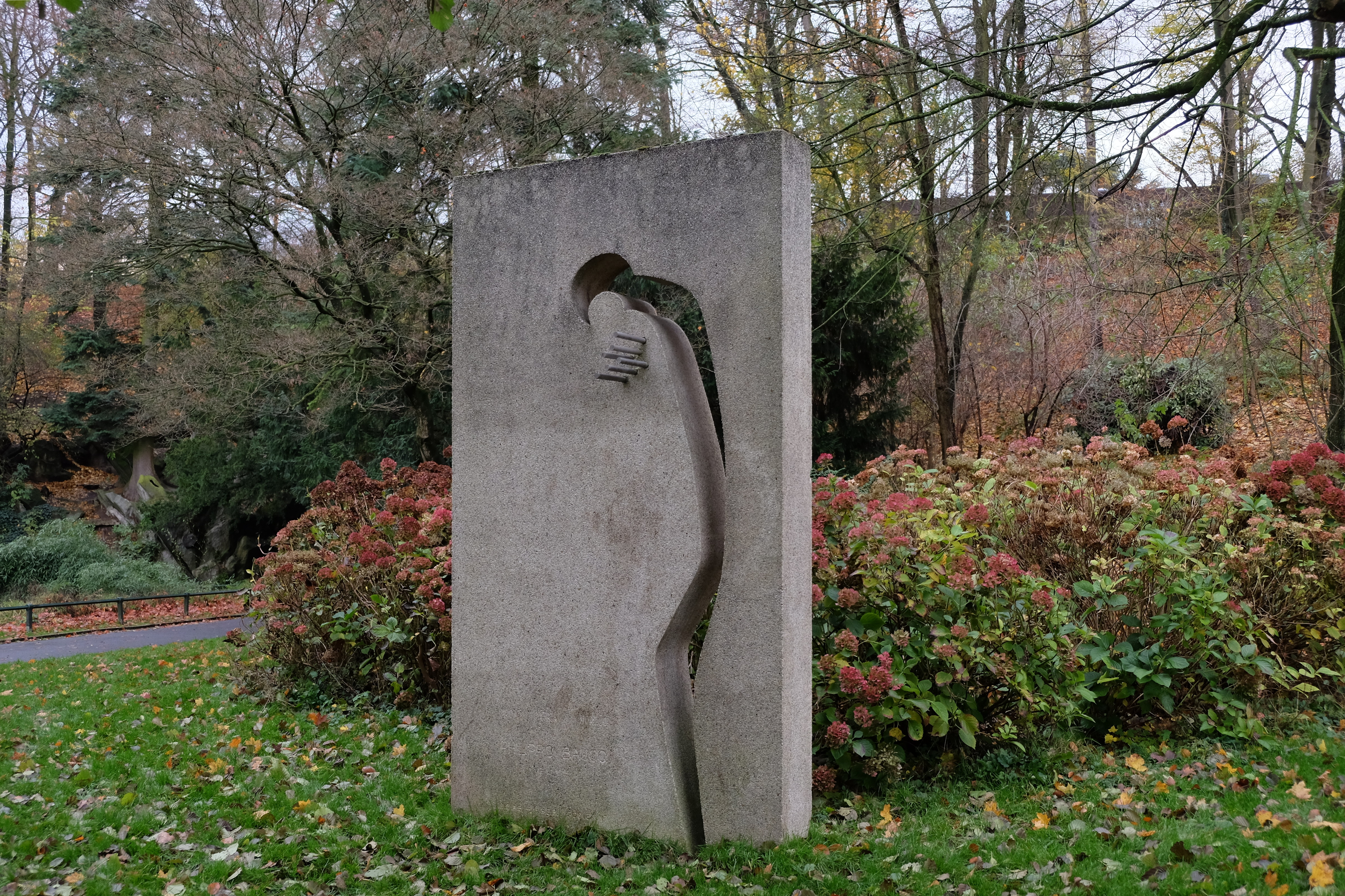 Parc Josaphat - Monument Philippe Baucq by Nisot